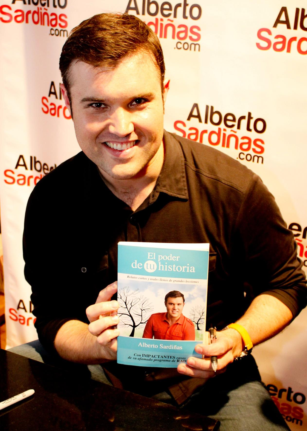 A foto of Alberto Sardinas at his first book signing